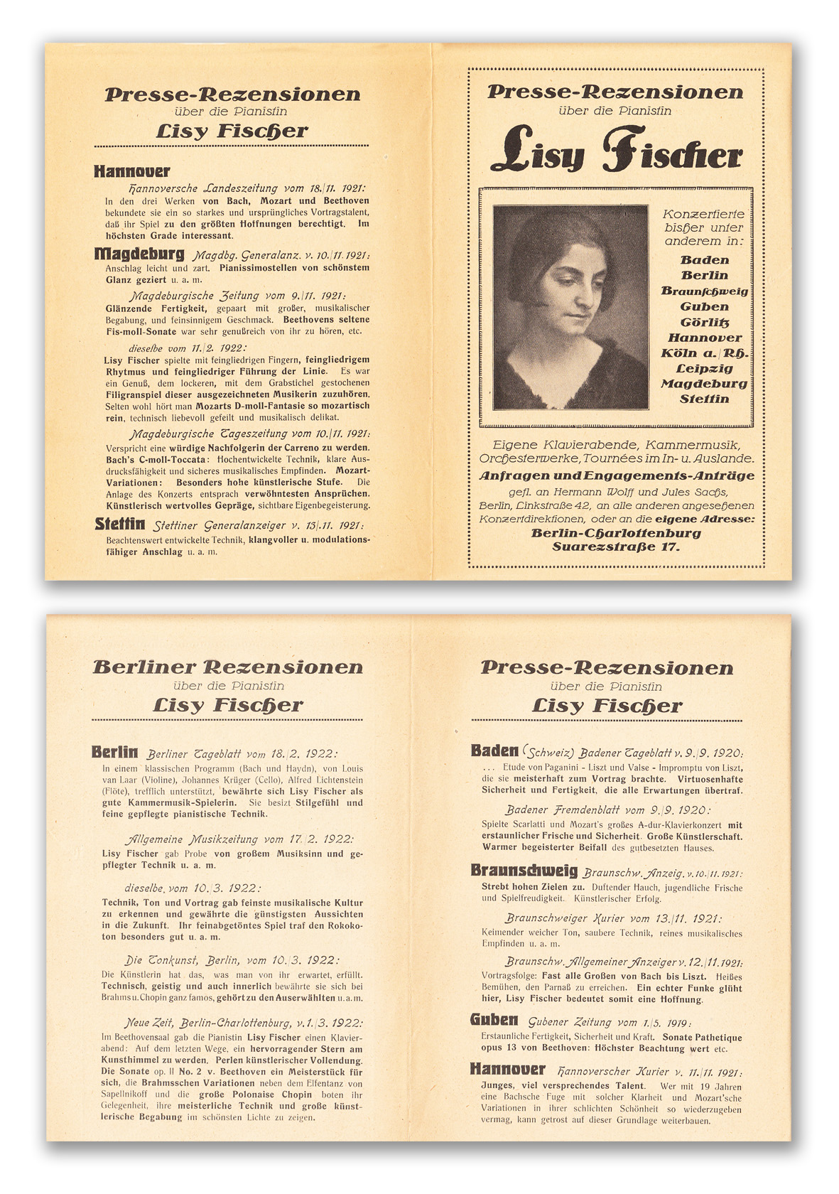 Promotional material for Lisy Fischer